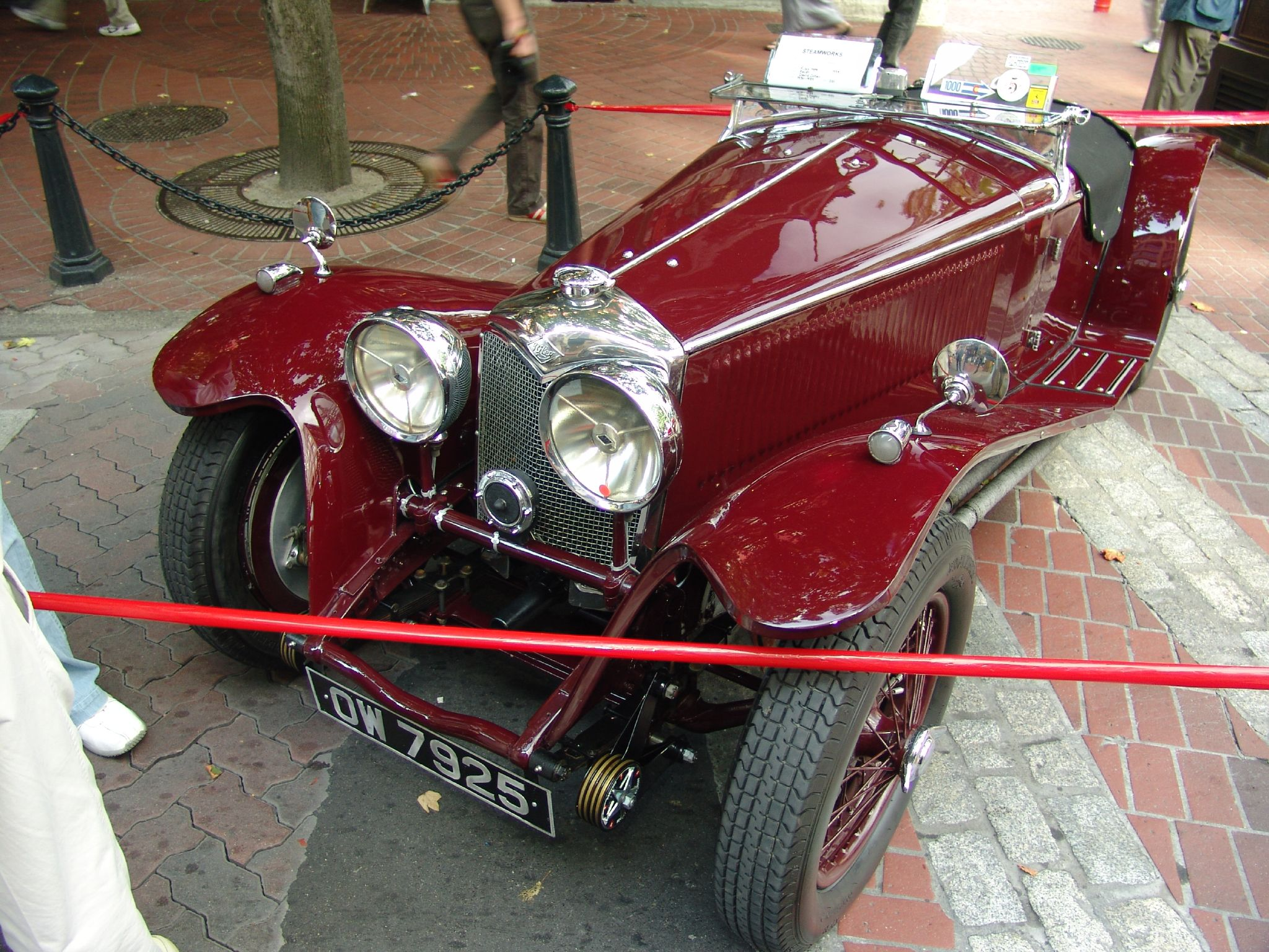 Riley MPH (DVLA) first registered 11 December 1935, 1479cc source of following information Chassis 22T2255 Engine 2577 6-cylinder Reg OW 7925 Racing history: 1935 season: 8 first placings, 4 second, Brooklands and Donnington Made in October 1934 after racing it was restored to its original open two-seater specification and registered for road use 11 December 1935